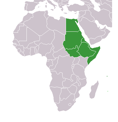 Showing the Northeastern part of Africa